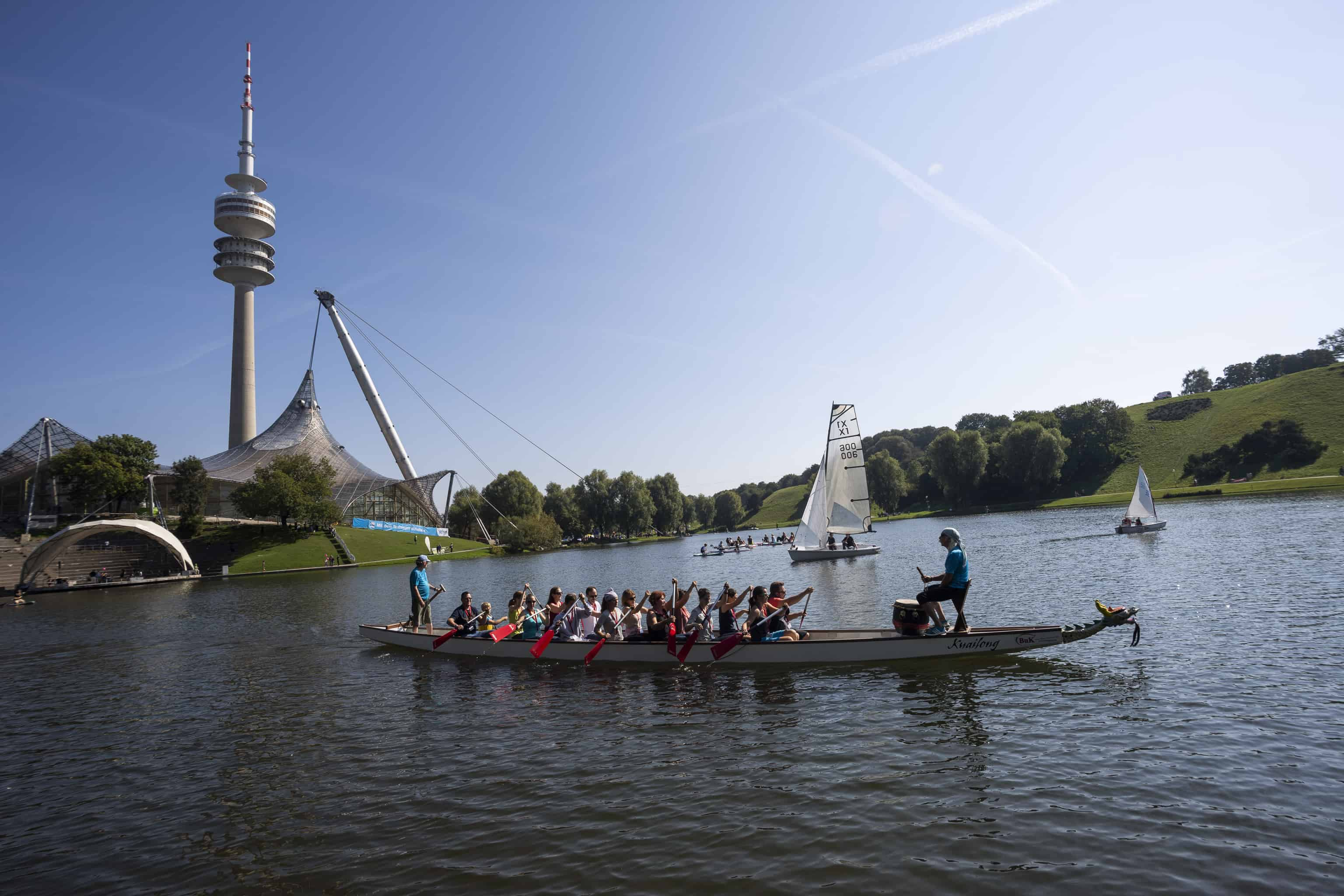 Münchner Outdoorsportfestival